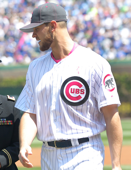 Army Reserve 1st Lt. Jiaru Bryar, 85th Support Command, meets Justin Grimm, Chicago Cubs pitcher, during the Cubs vs. Washington Nationals Mother’s Day game, May 8, at Wrigley Field in Chicago. Bryar was honored during the game with retired U.S. Army Capt. Florent ‘Flo’ Groberg, Medal of Honor recipient in front of an audience of more than 37,500 in attendance. The Loyola University Chicago Army Reserve Officers’ Training Corps Rambler Battalion presented the nation’s colors during the singing of the National Anthem. (U.S. Army photo by Mr. Anthony L. Taylor/Released)